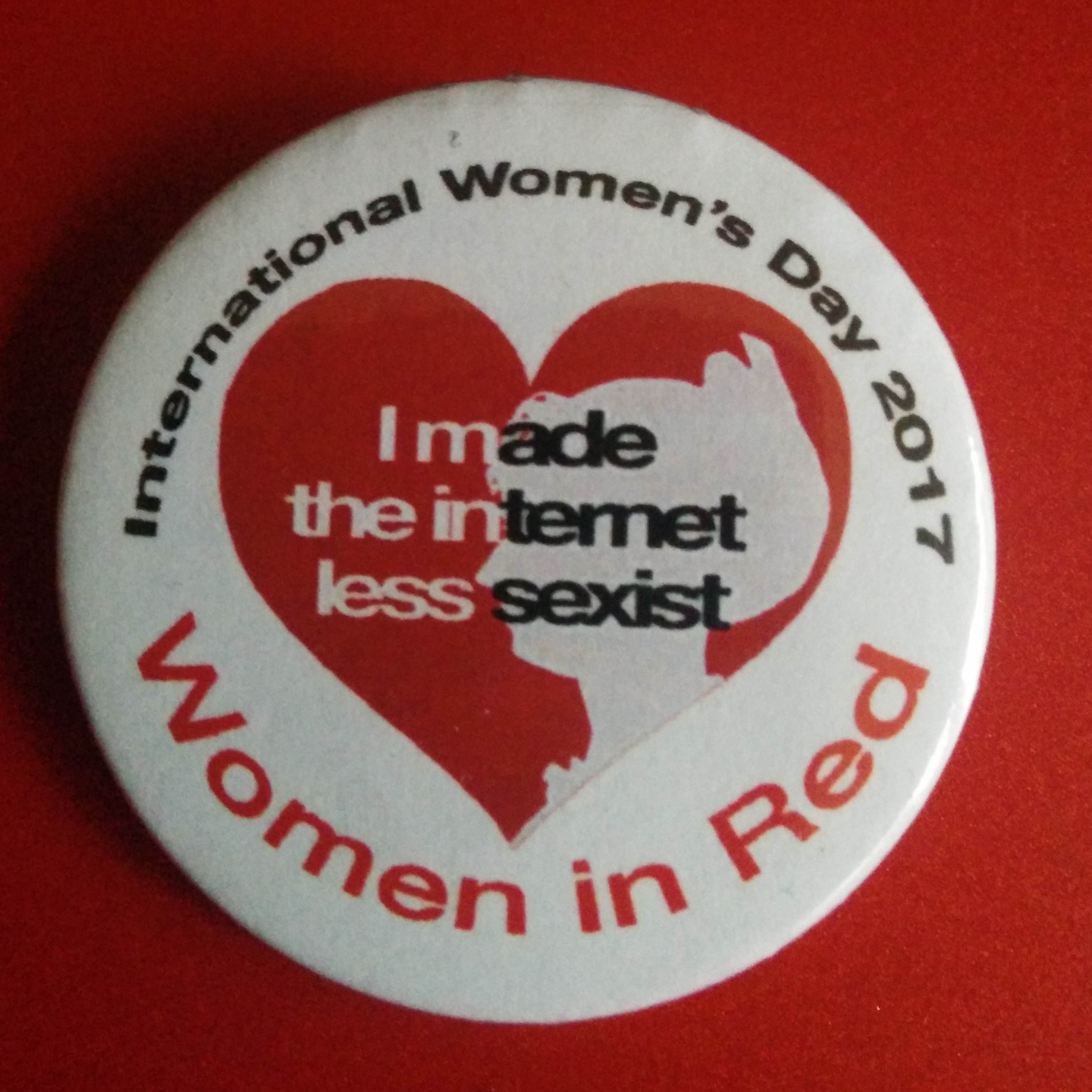 Women in Red badge